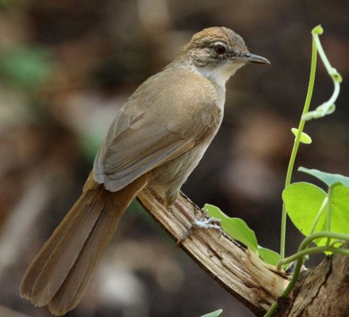 Terrestrial Brownbul Phyllastrephus terrestris at Ngwenya, adjacent to Kruger National Park, South Africa